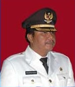 Puspayoga as Mayor of Denpasar